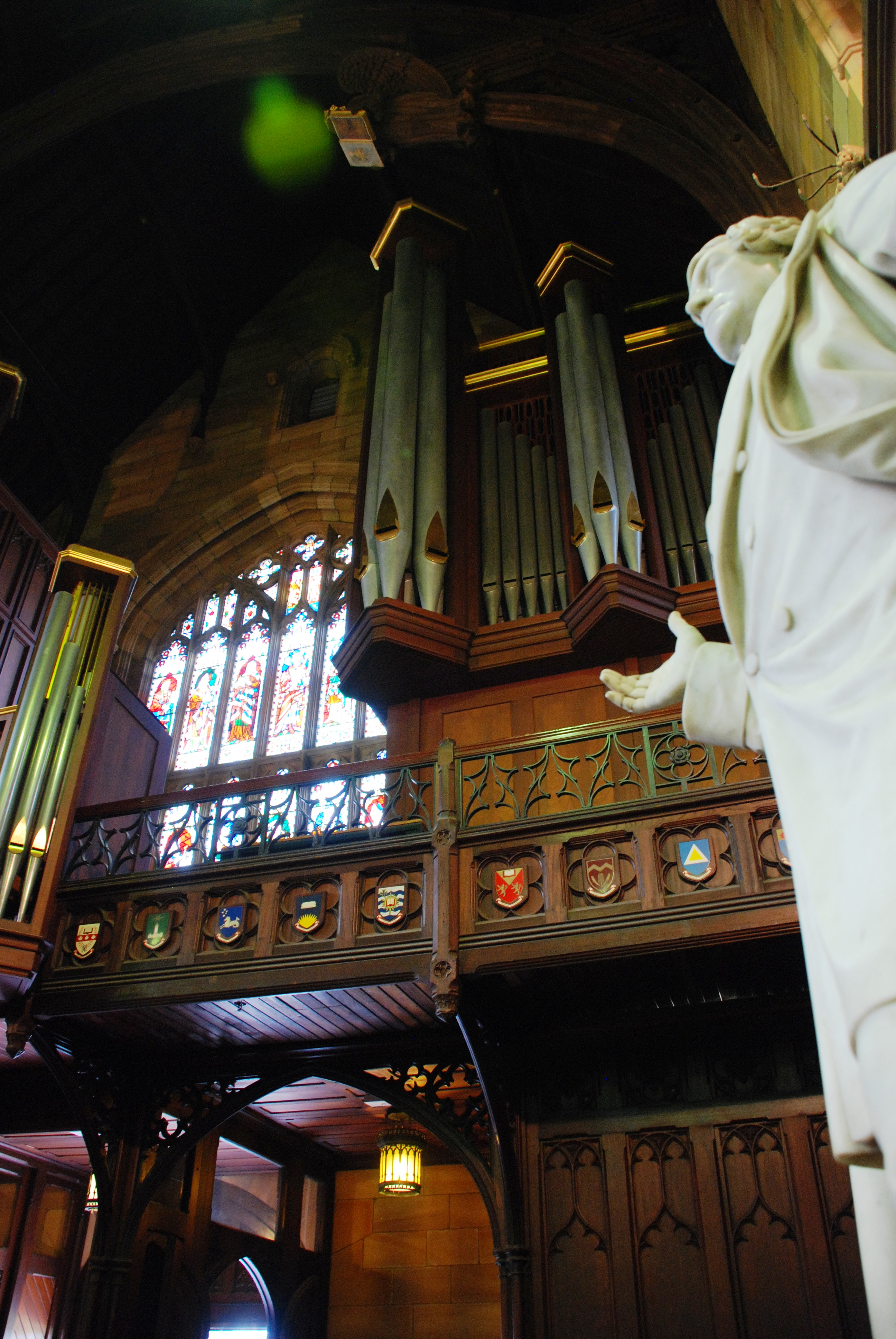 The Great Hall at the University of Sydney, showing the statue of William Wentworth and the organ. Photo taken by Sumple on 21/05/2010. As a courtesy, and entirely voluntarily, please notify me if you change this image or its description